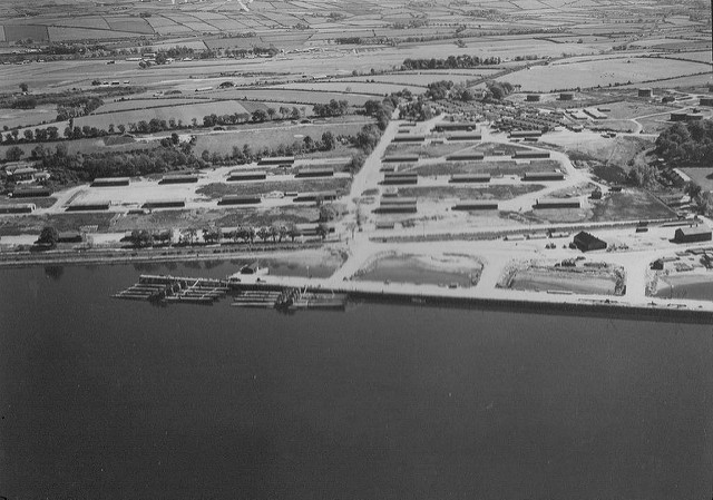 View of the first eight surrendered U-boats at Lisahally on 24th May 1945. The photo also shows to good effect the buildings around the former US Naval Base including the storage sheds, workshops and fuel storage tanks. Maydown airfield is also visible beyond. The eight U-boats were; U-293, U-802, U-826, U-1009, U-1058, U-1105, U-1109 and U-1305